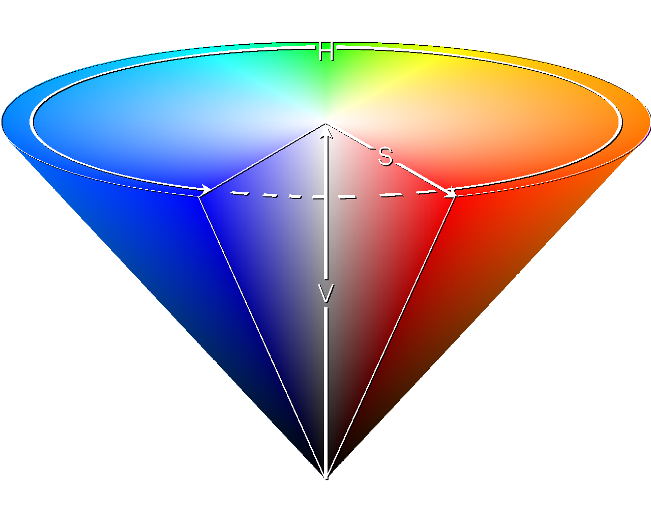 Representation of colors in the HSV system. Image created by (3ucky(3all using Borland Delphi 2006, Adobe Photoshop 9.0.